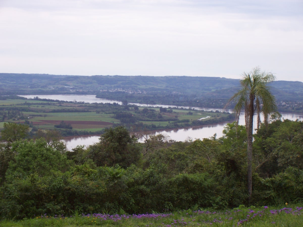 Photo of the Uruguay River, in the Monk Hill, San Javier, Misiones, Argentina. To the bottom, the Uruguay river that for of border with Brazil.